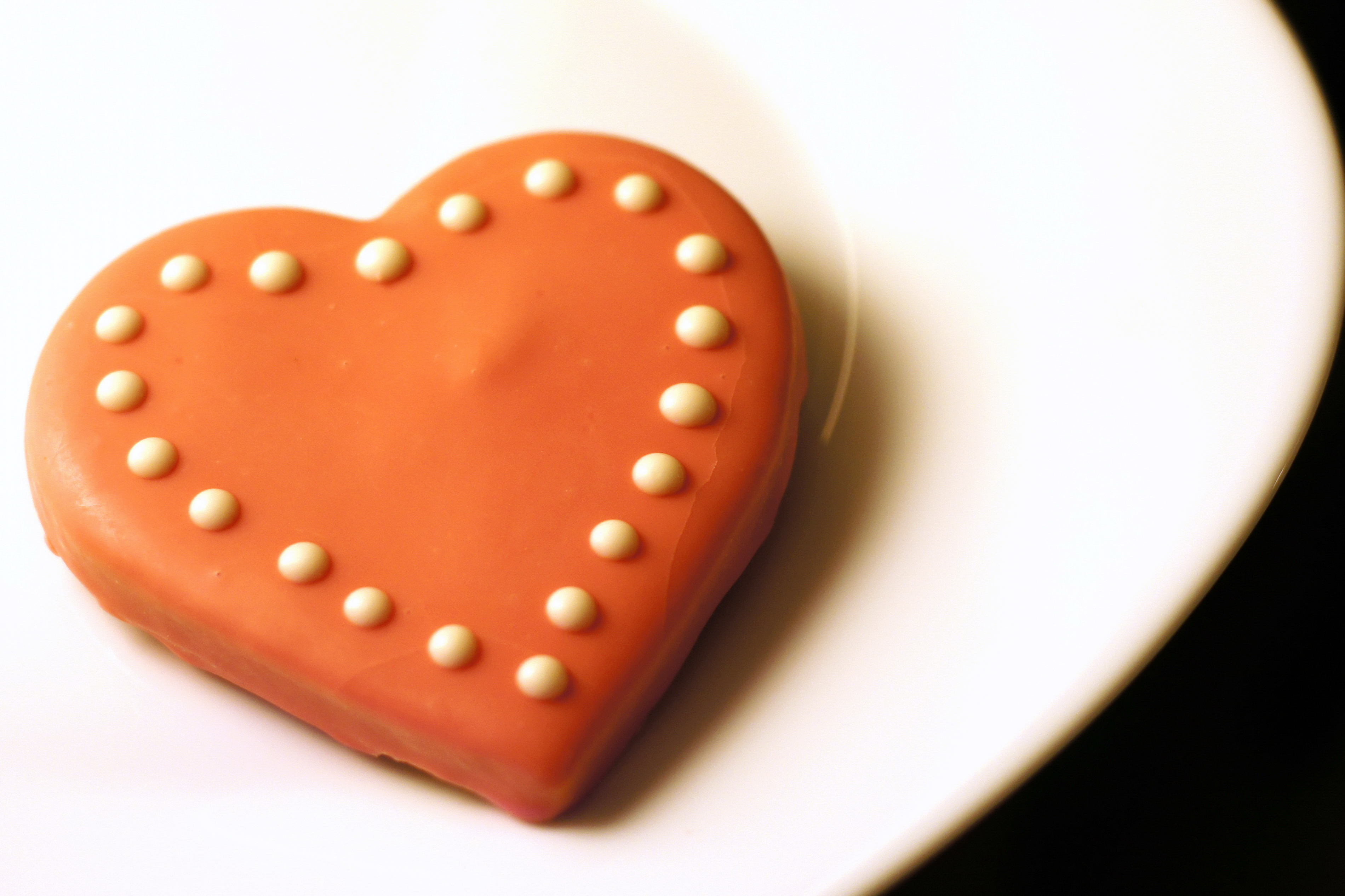 A pink color chocolate-dipped heart-shaped cookie